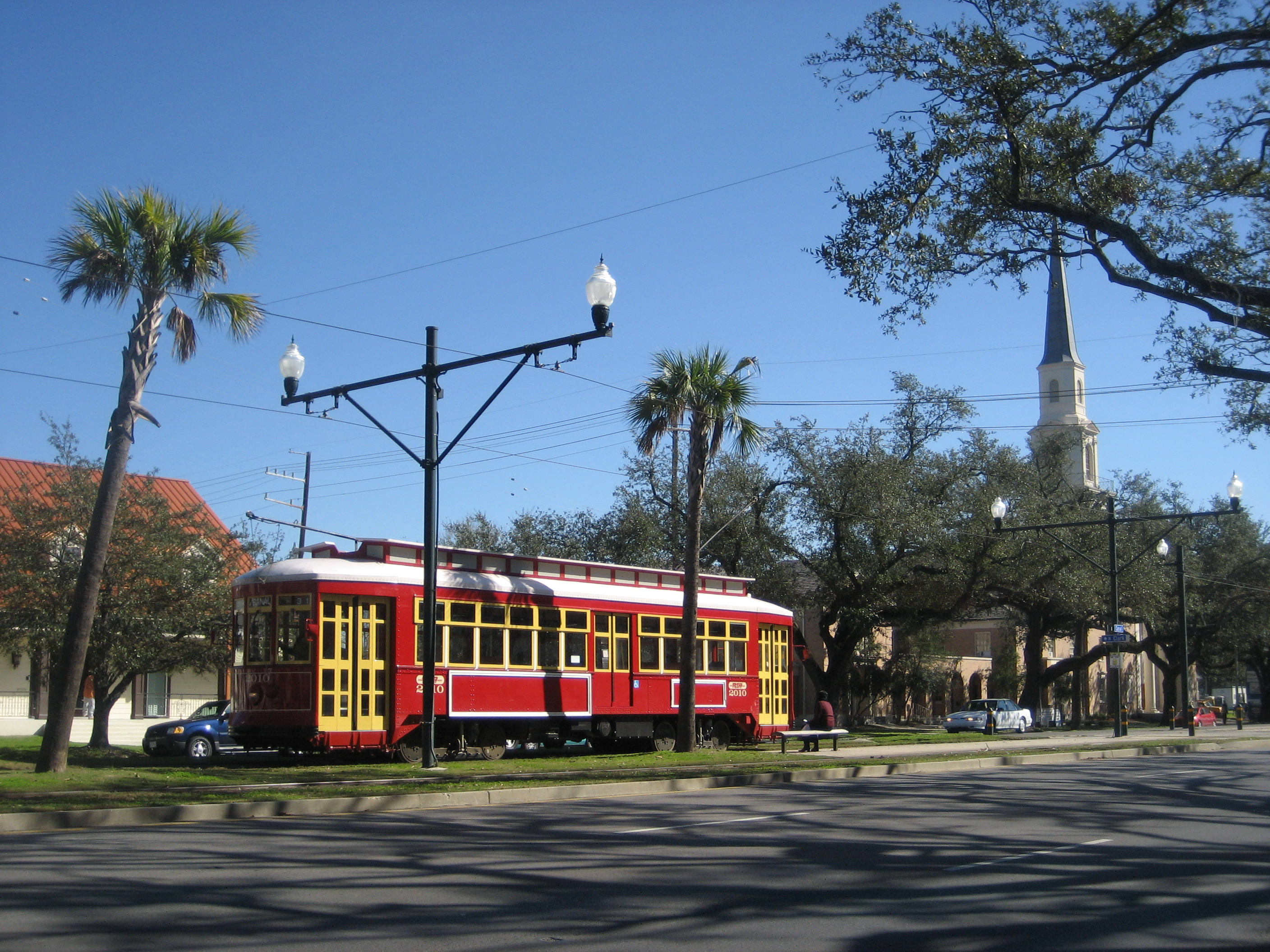 Canal Street, Mid-City New Orleans. Red streetcar, with First Grace Church in background.